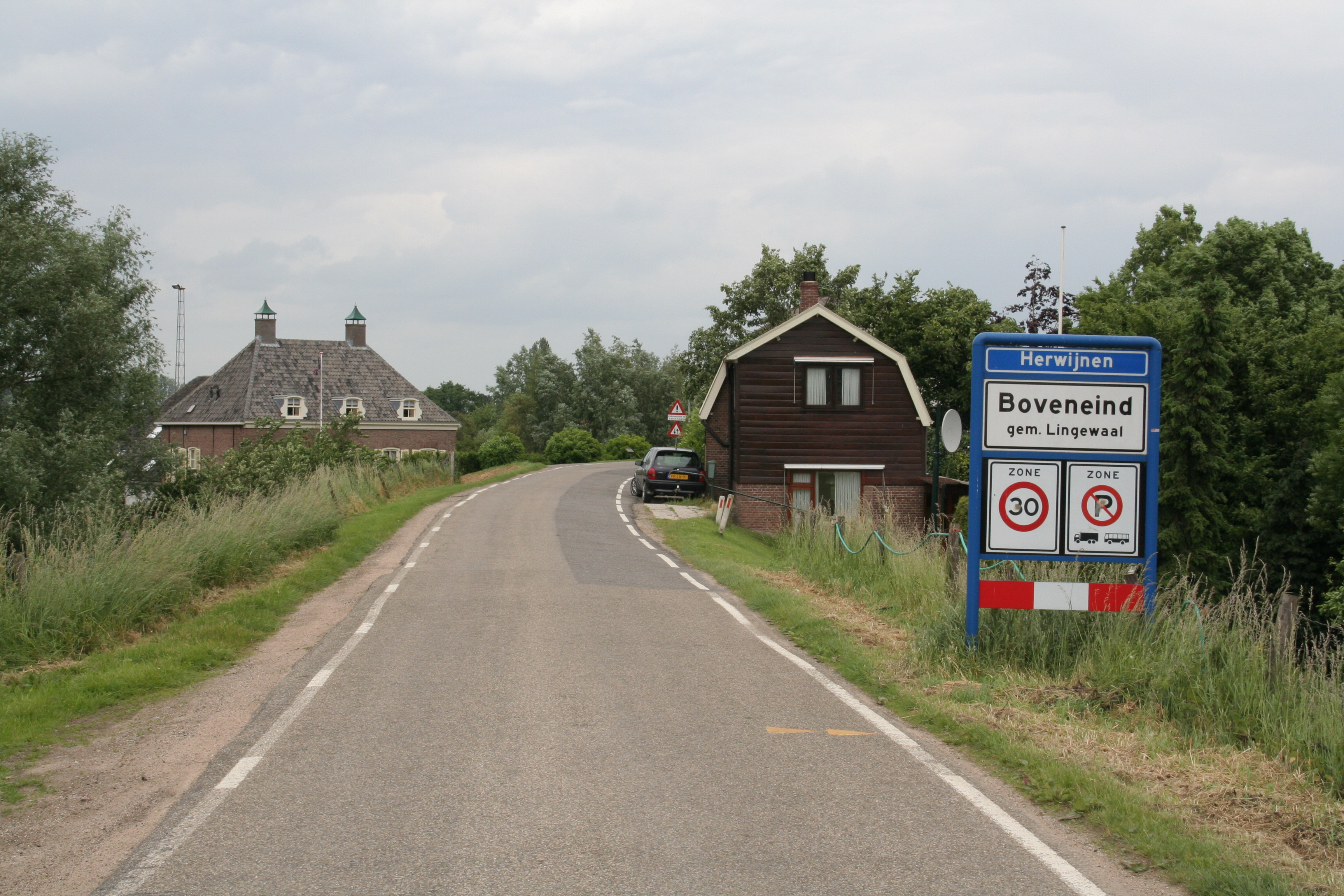 Boveneind